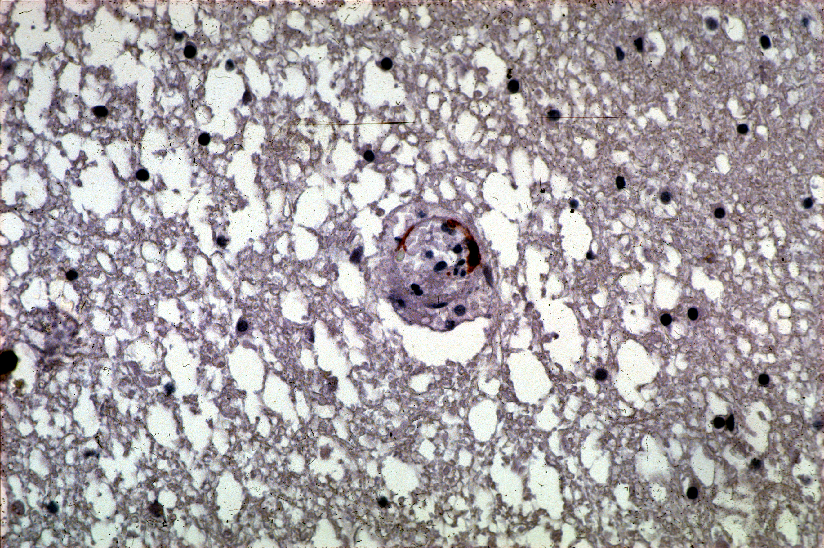 In 1998-99, an outbreak of a previously unrecorded viral disease killed more than 100 people in Malaysia. These people had become infected from a widespread epidemic involving thousands of pigs, as well as some horses, dogs, cats, fruit bats (flying foxes) and goats.This slide shows Nipah virus in the brain of a human. The brown stain on the multinucleated cell indicates the presence of the virus.Image: Dr Peter Hooper, Australian Animal Health Laboratory (AAHL)